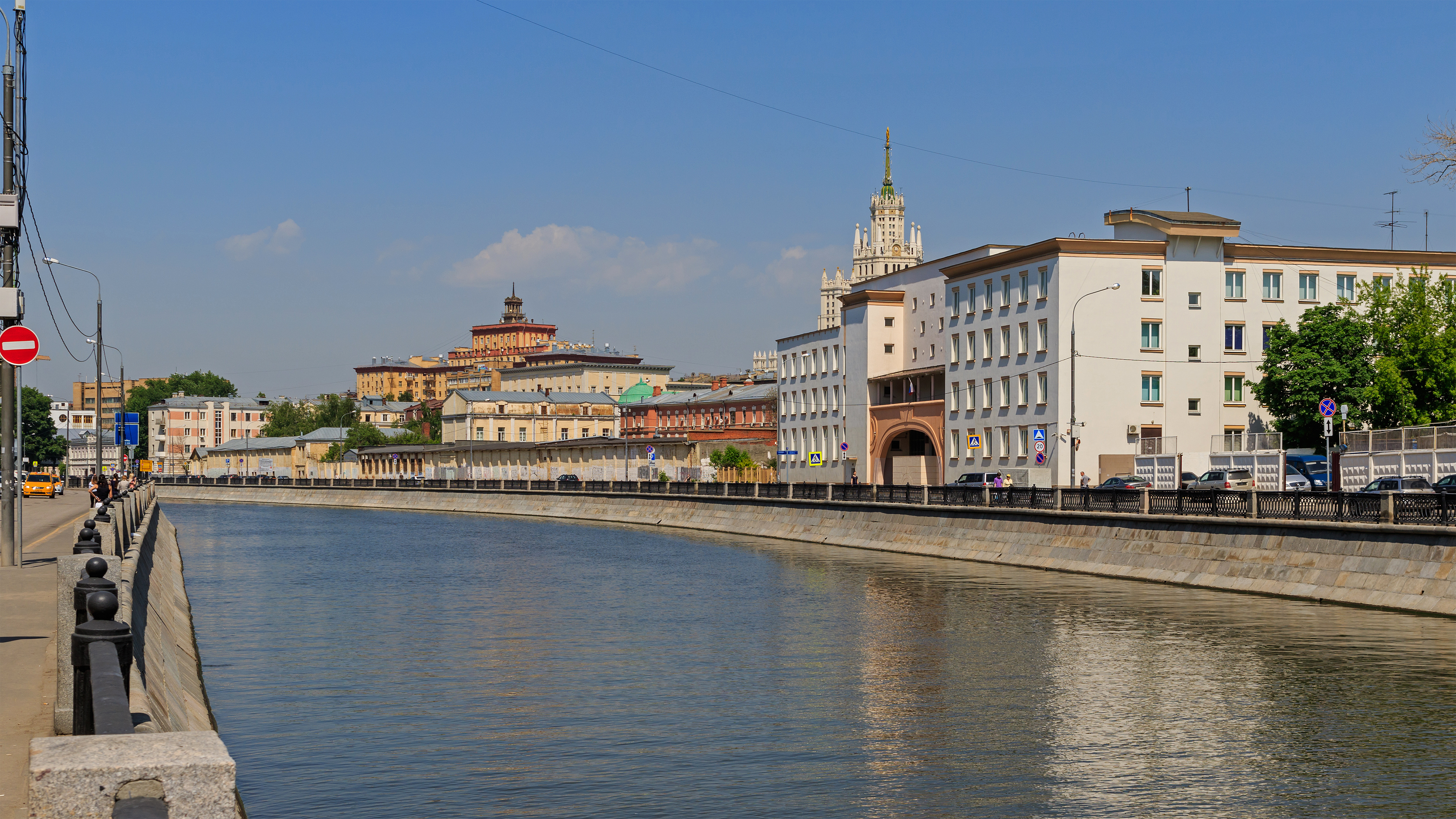 Sadovnicheskaya Embankment in Moscow, view from Ozerkovskaya Embankment